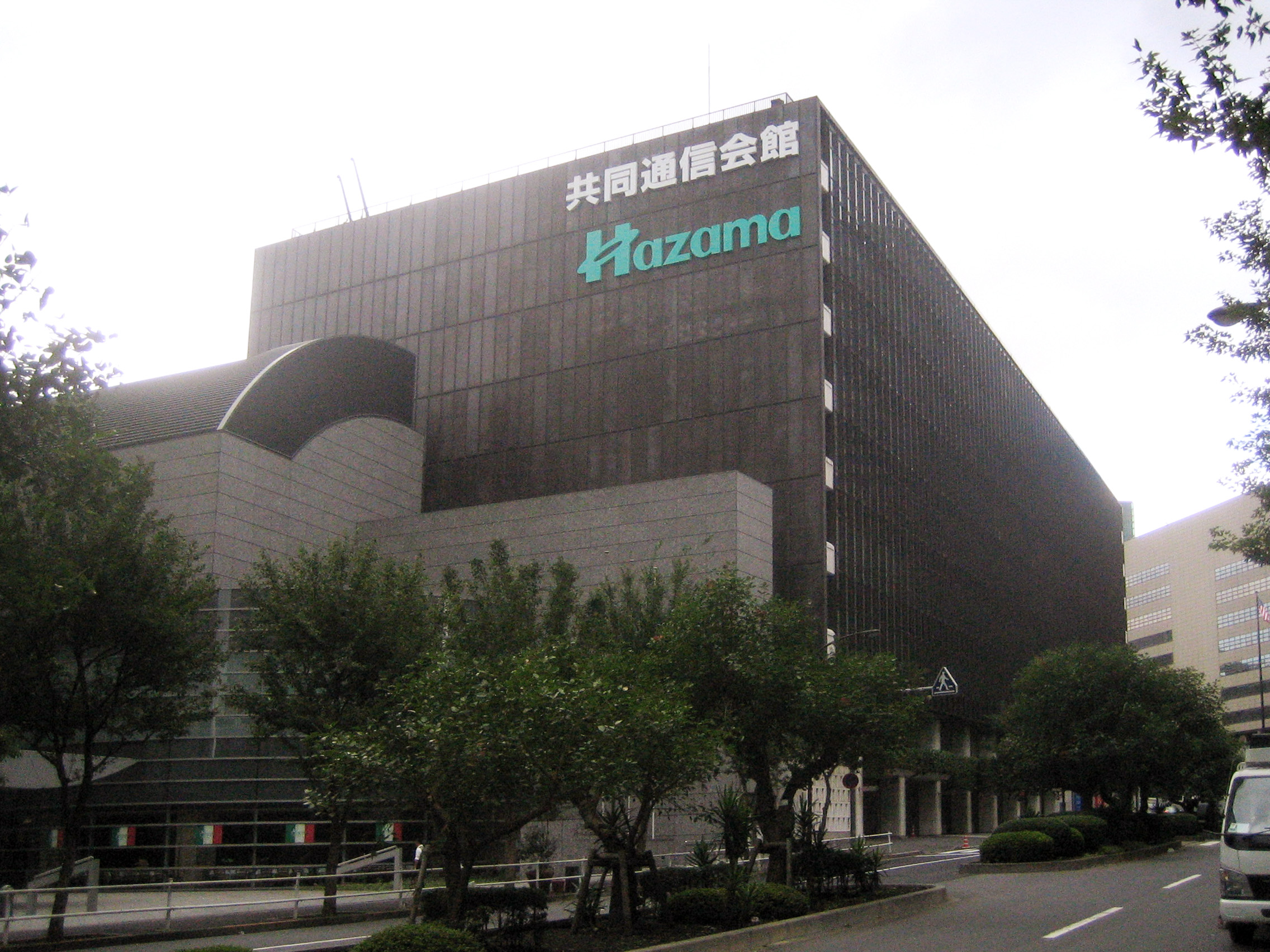 Kyodo Tsushin Kaikan (formerly Kyodo News headquarters), located in Toranomon, Minato Ward, Tokyo, Japan. Also Hazama Corporation headquartered in this building.